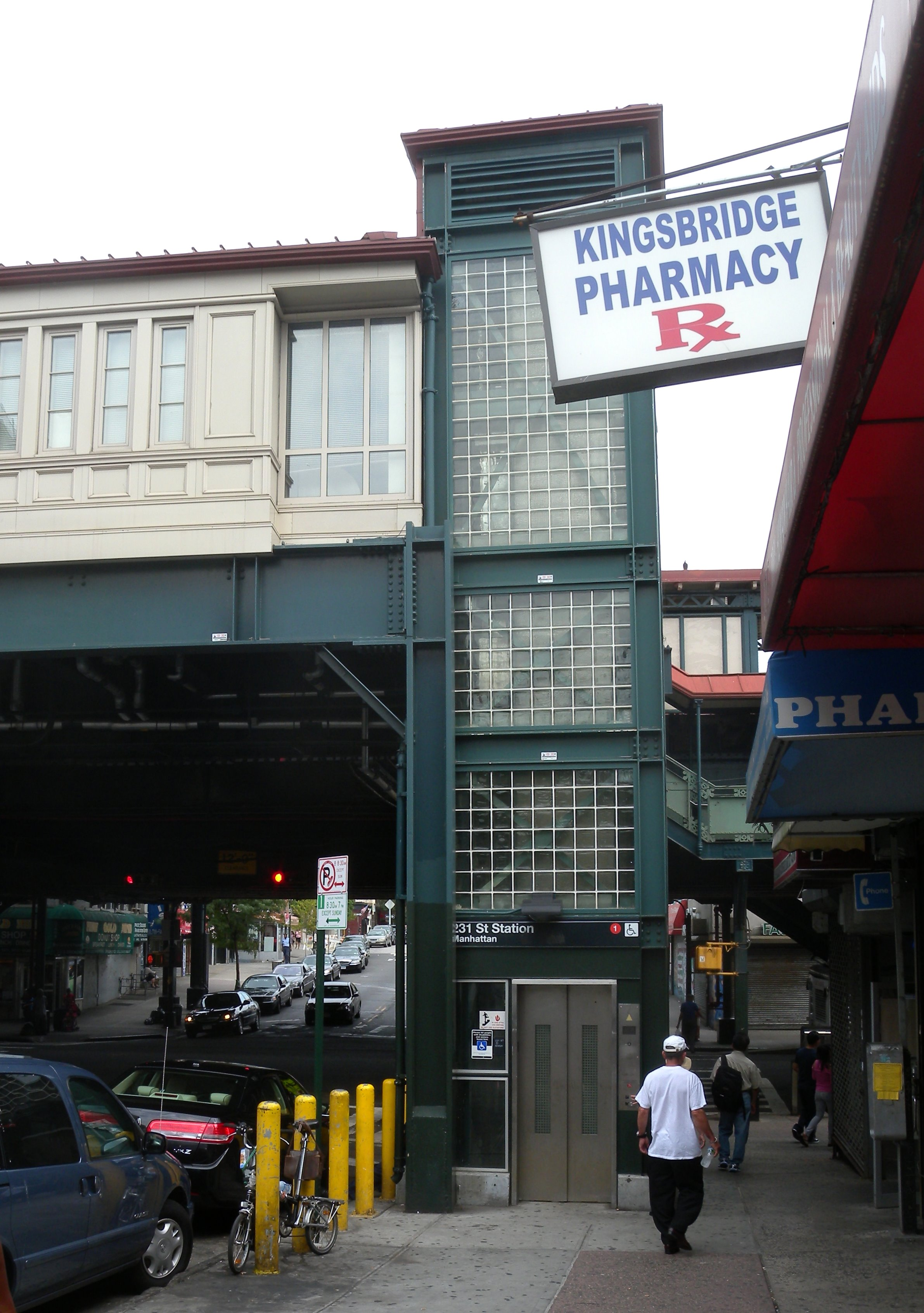 Looking east at elevator entrance for 231st Street station on a cloudy afternoon.